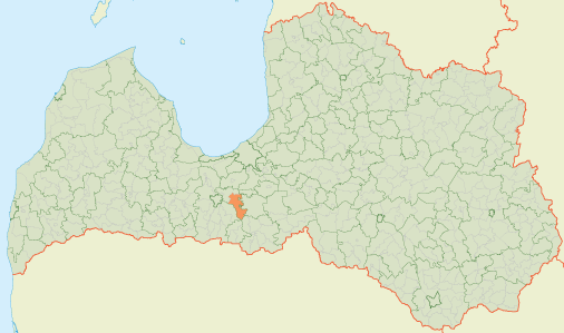 Location map of Salgale parish, Latvia.